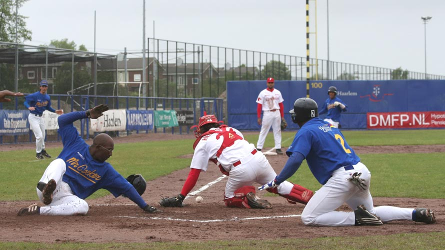 Ralf Milliard of HCAW scores against Wouter Heemskerk, catcher of Kinheim on 12 mei 2007.